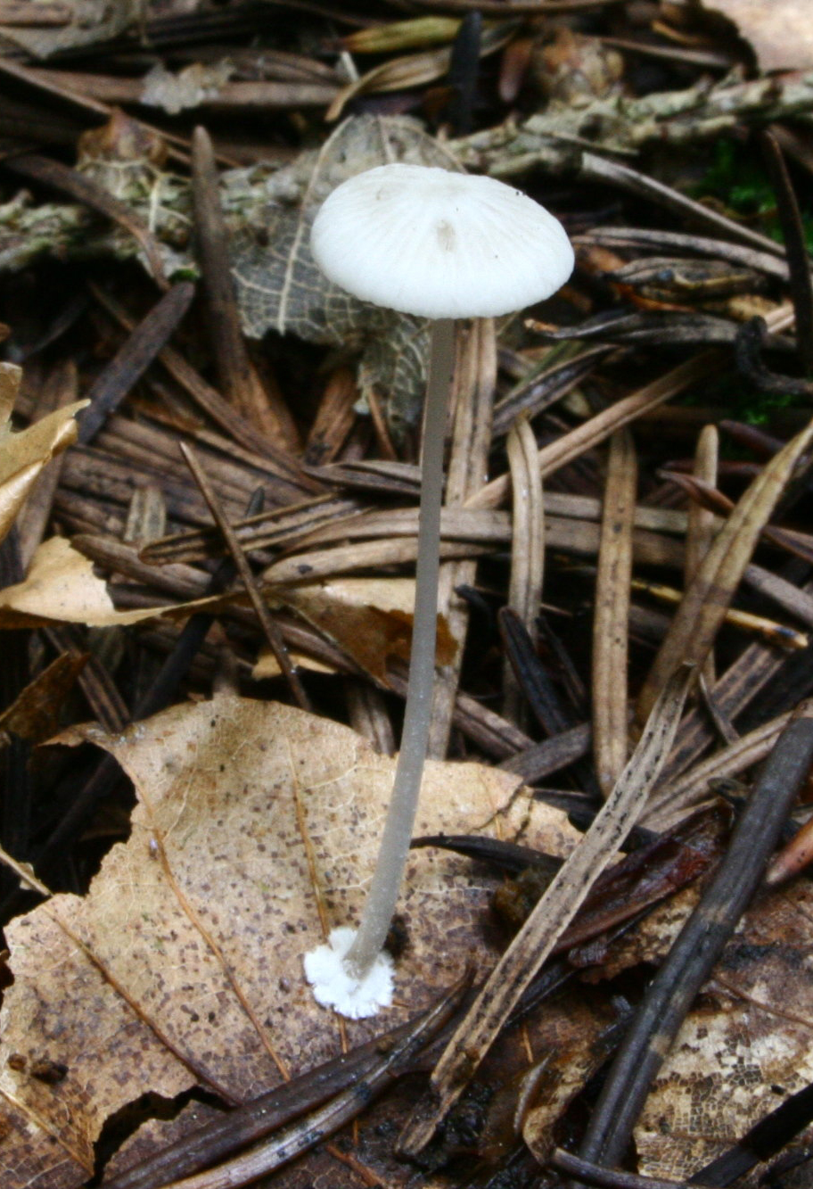 Mycena stylobates in a forest near Château-Chinon, France.